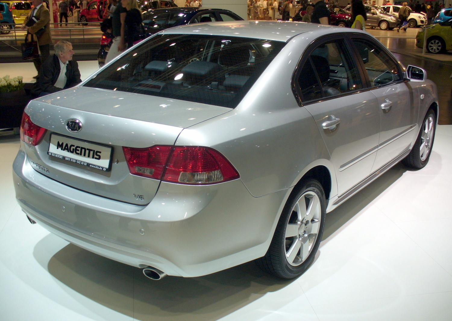 Kia Magentis Facelift